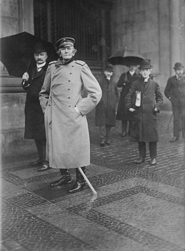 Gottlieb Graf von Haeseler (1836-1919), a prussian Field Marshal